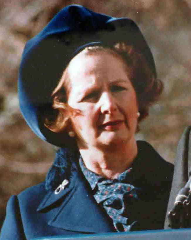 Margaret Thatcher